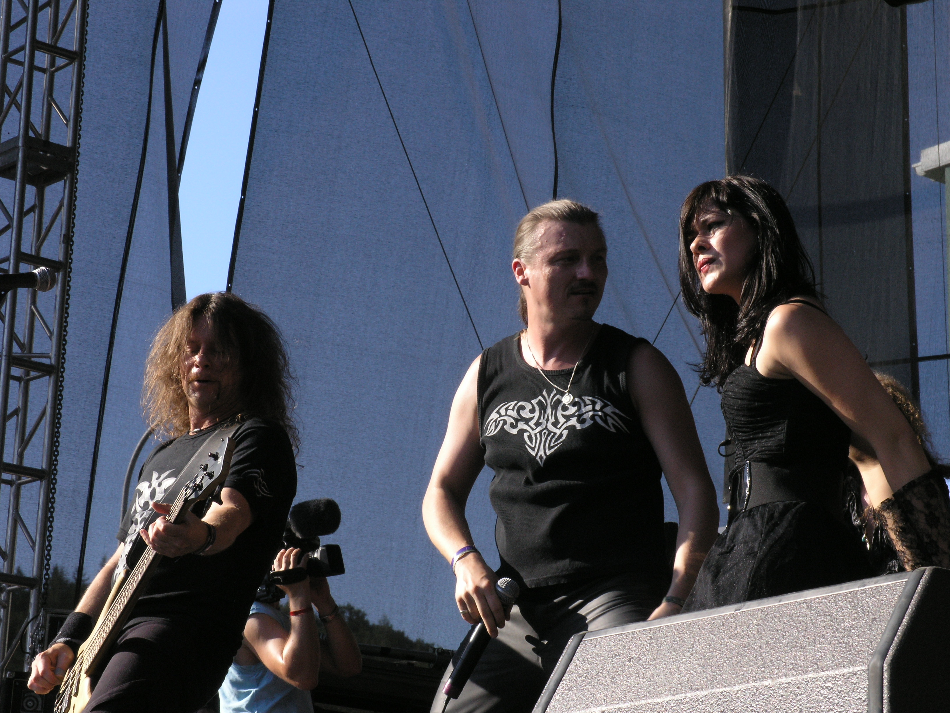 Music band Axxis during Masters of Rock 2007 festival